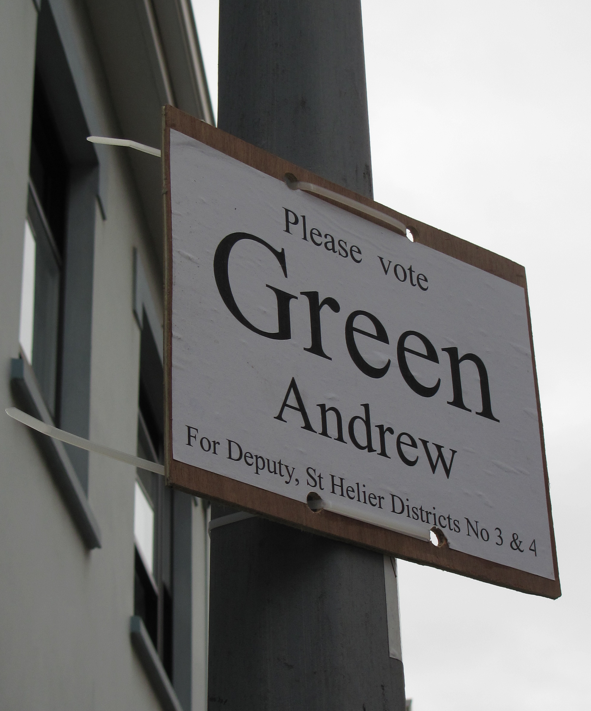 Andrew Green, candidate for Deputy, Saint Helier 3&4